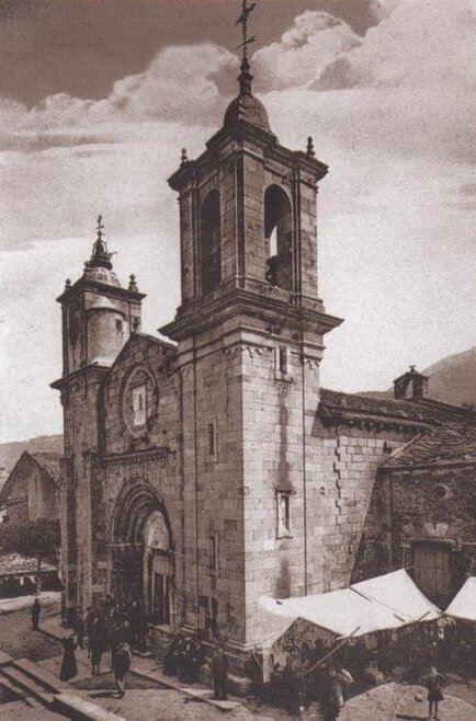 Santa Maria Church in Viveiro